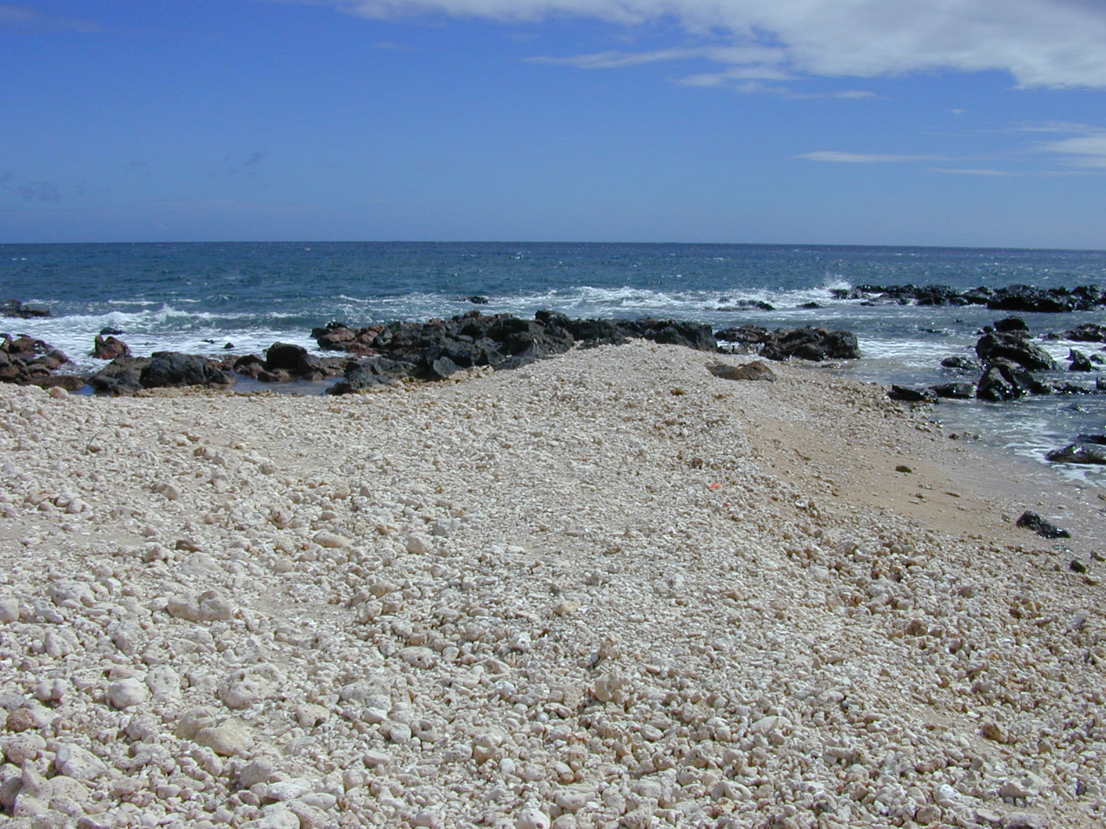 Tribulus cistoides (habitat). Location: Kahoolawe, Kealaikahiki